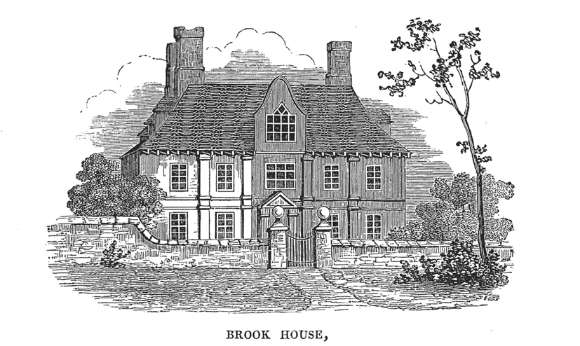 Brook House now the Manor House, Princes Risborough in the 1840s